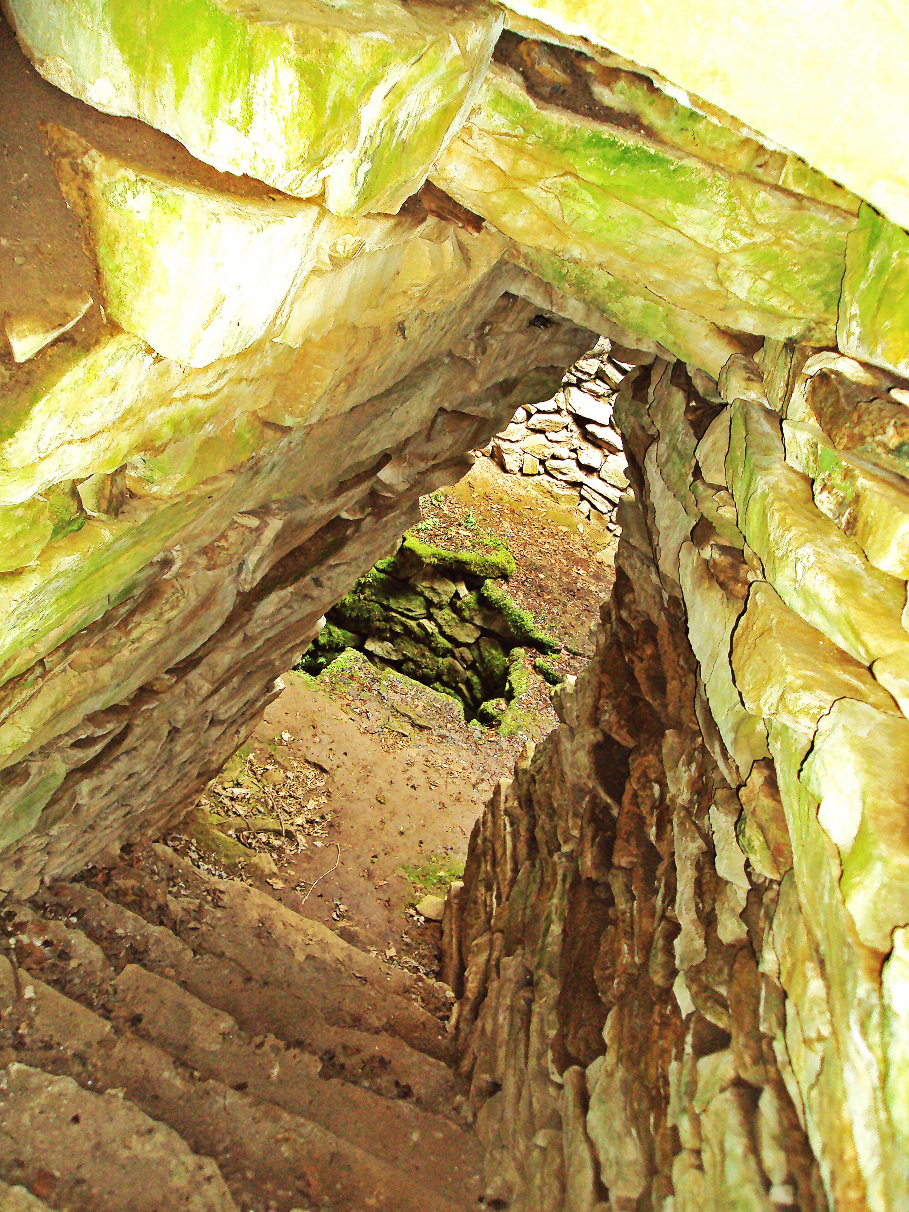 Indoors Nuraghe Garlo BG